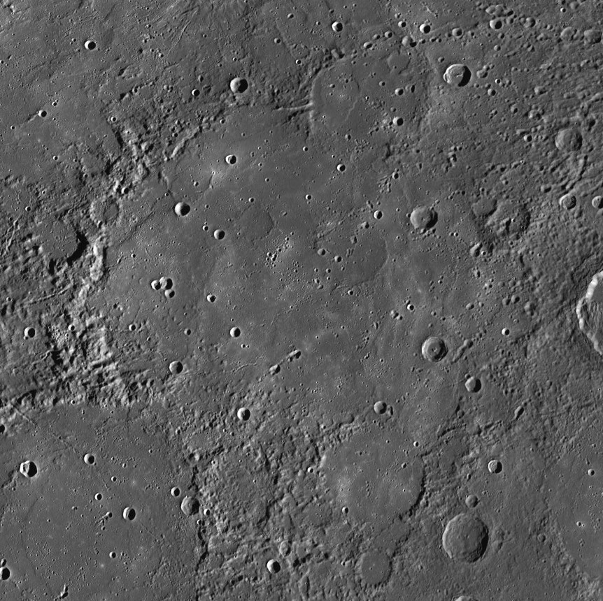 Shakespeare crater, on Mercury. MESSENGER Wide Angle Camera mosaic. Image is approximately 558 km wide.